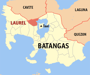 Map of Batangas showing the location of Laurel